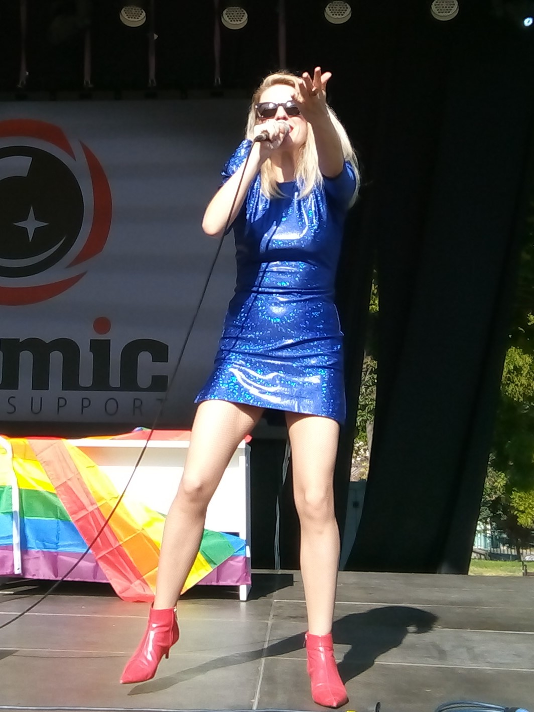 Ida Prester on Belgrade Pride 2018